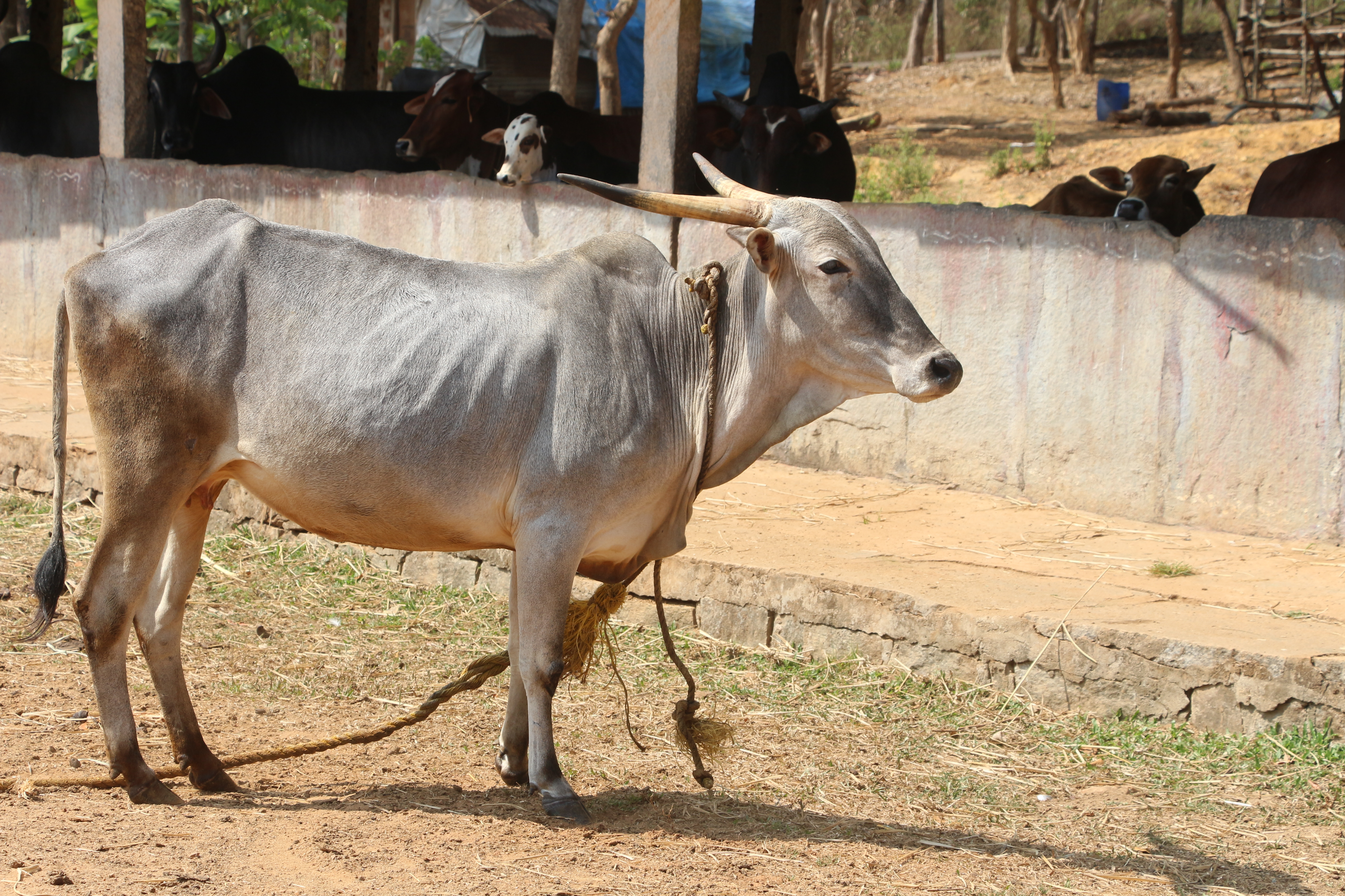 Indian cow breed Amruthamahal ಕನ್ನಡ: ಭಾರತೀಯ ಗೋತಳಿ ಅಮೃತಮಹಲ್